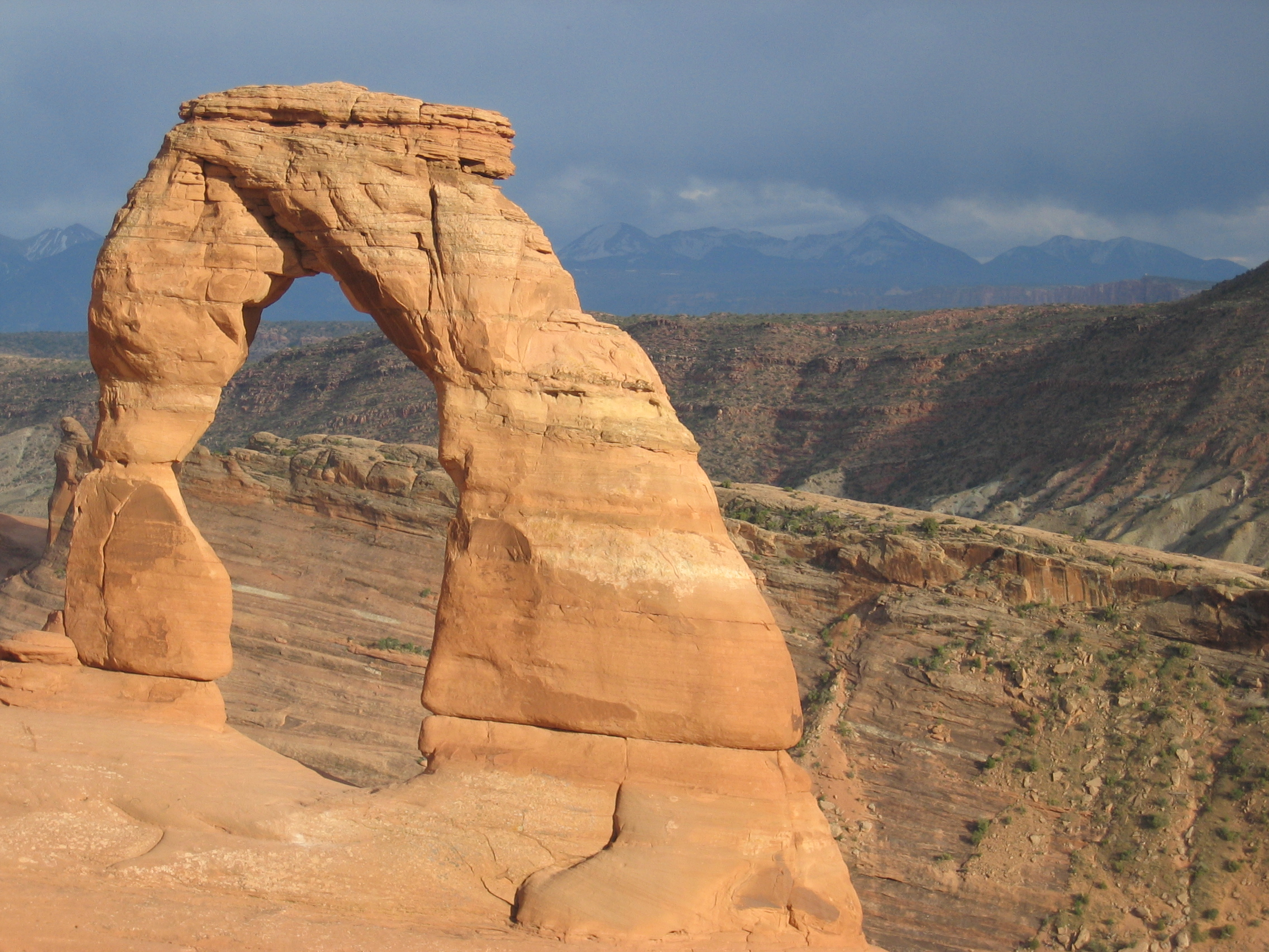 Photo of Delicate Arch in Arches National Park, Utah, USA.